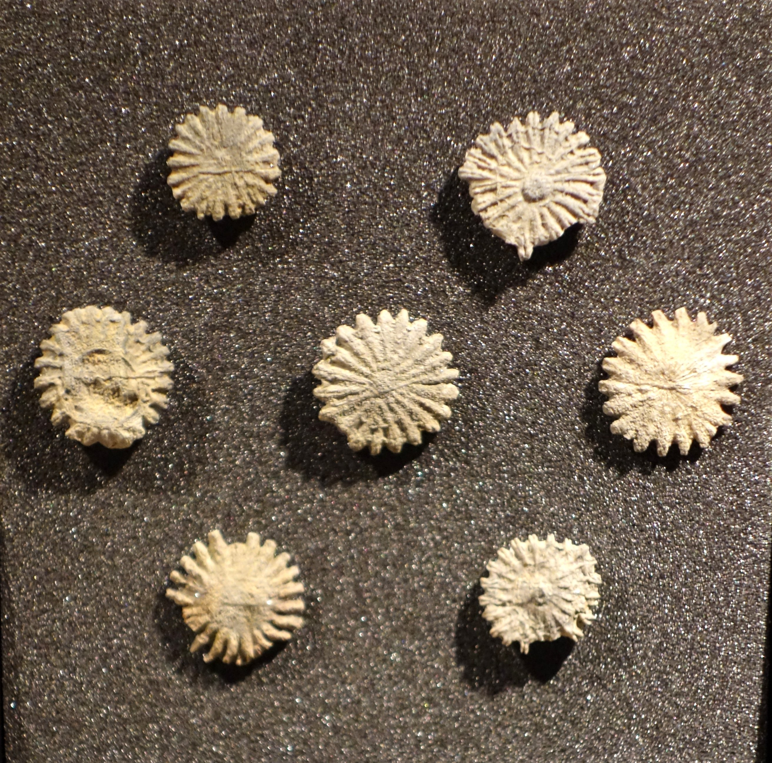 crop of file in file name